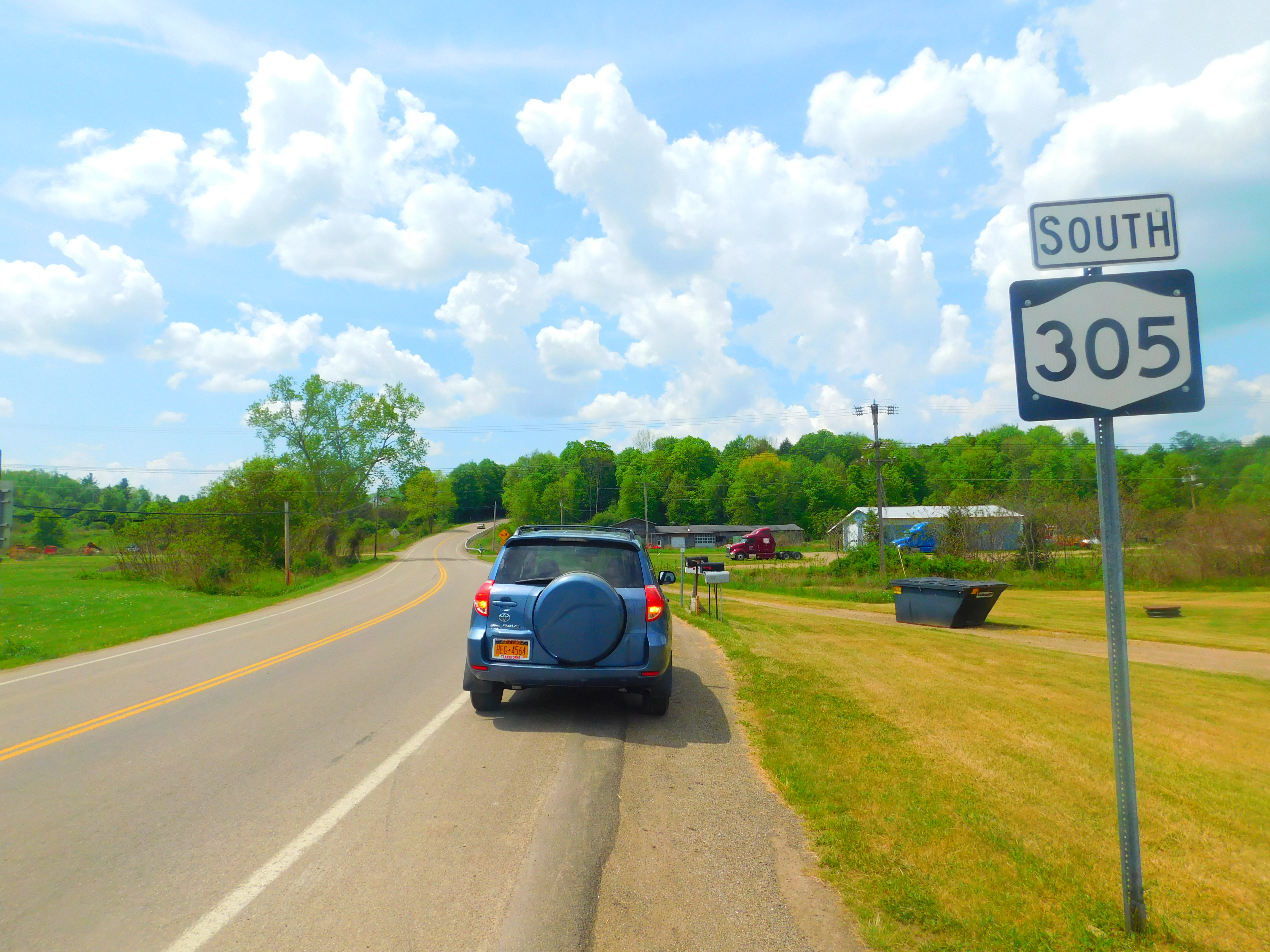 NY 305 heading south from the junction with NY 19 in Belfast, New York.